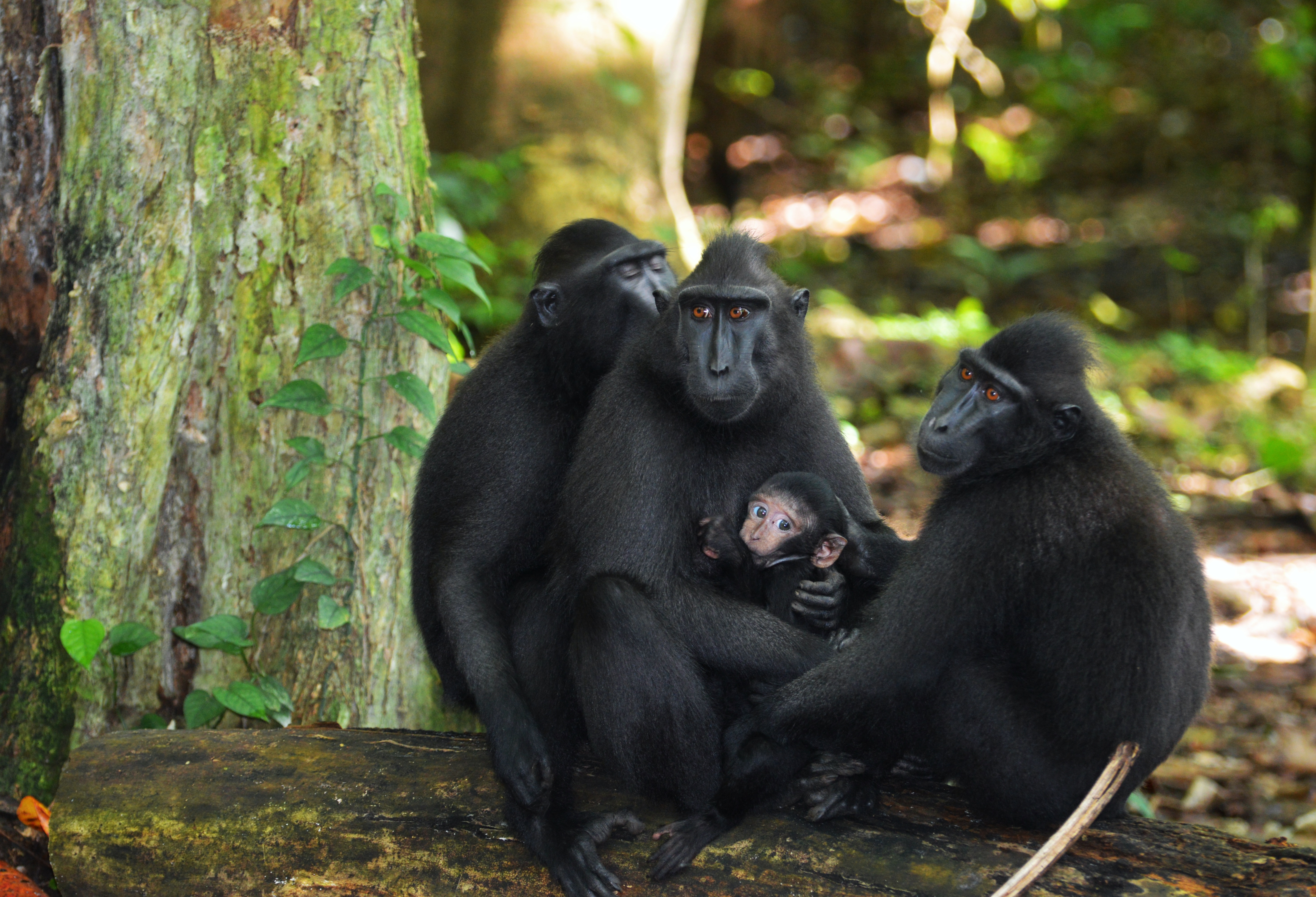 Macaca nigra is one of the endemic species of North Sulawesi. Local people named him Yaki. Yaki population starts to diminish by the change of forest function and hunting.